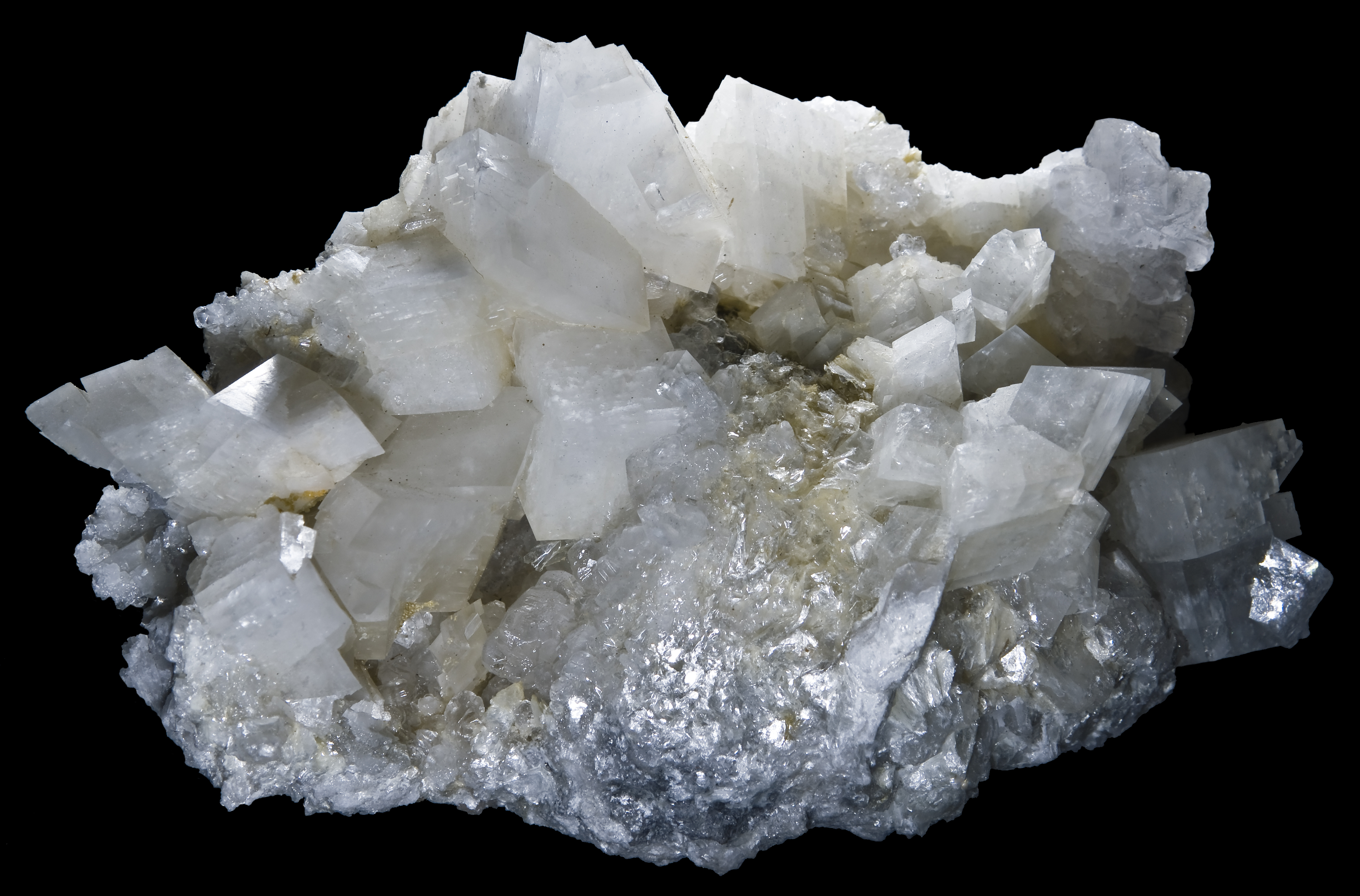 Dolomite and Talc Locality : Trimouns Talc Mine, Luzenac, Ariège, Midi-Pyrénées, France Size 10x6.2cm